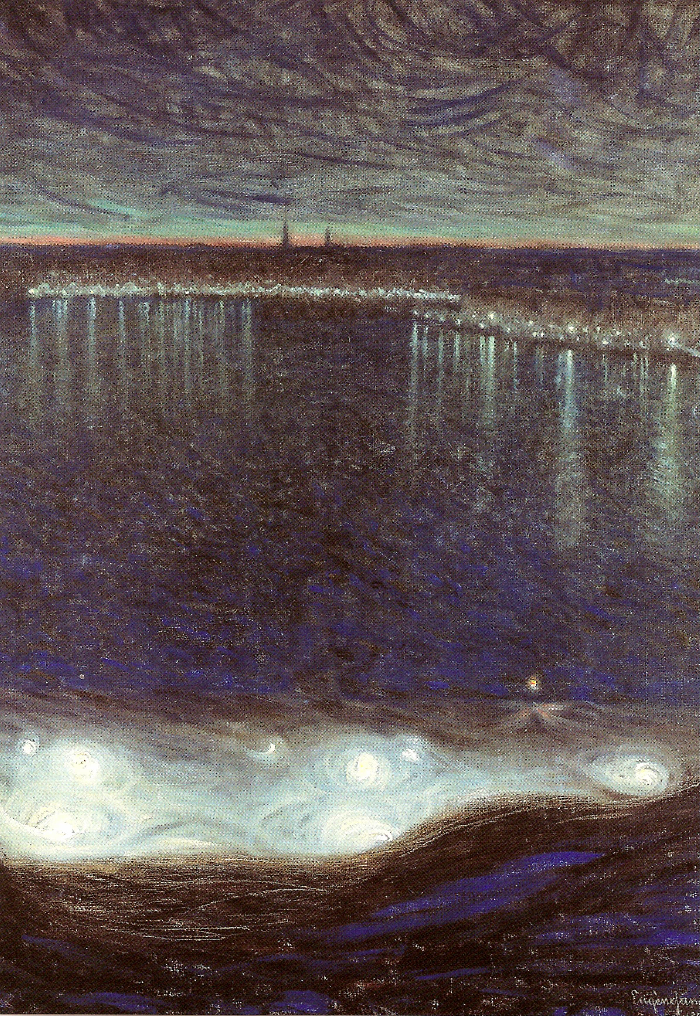 literally "Dawn over the Knight Firth".